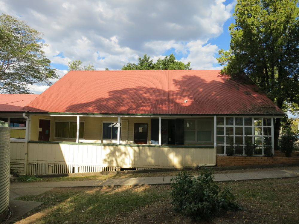 Petrie State School (2014) verandah view